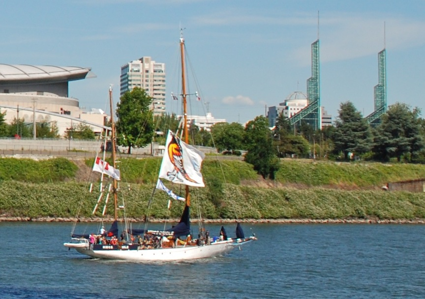 The HMCS Oriole arriving in Portland, Oregon, for the 2013 Portland Rose Festival. The ship is pictured just north of the Broadway Bridge, and in the background are the Rose Garden Arena (far left) and the glass towers of the Oregon Convention Center.